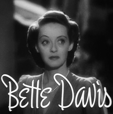 Cropped screenshot of Bette Davis from the trailer for the film The Letter.